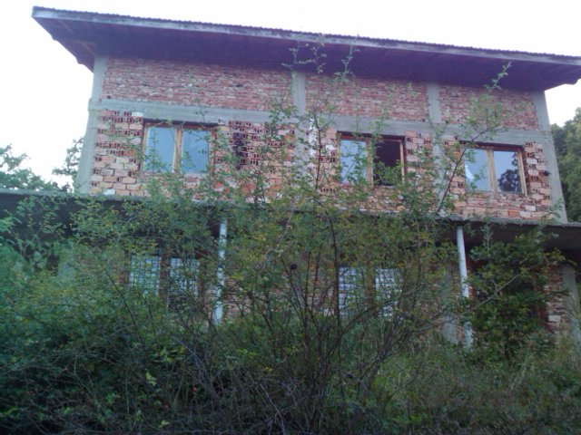 lovna hija